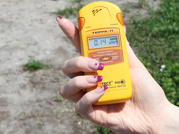 Level of contamination in Chernobyl. No need to be worried.